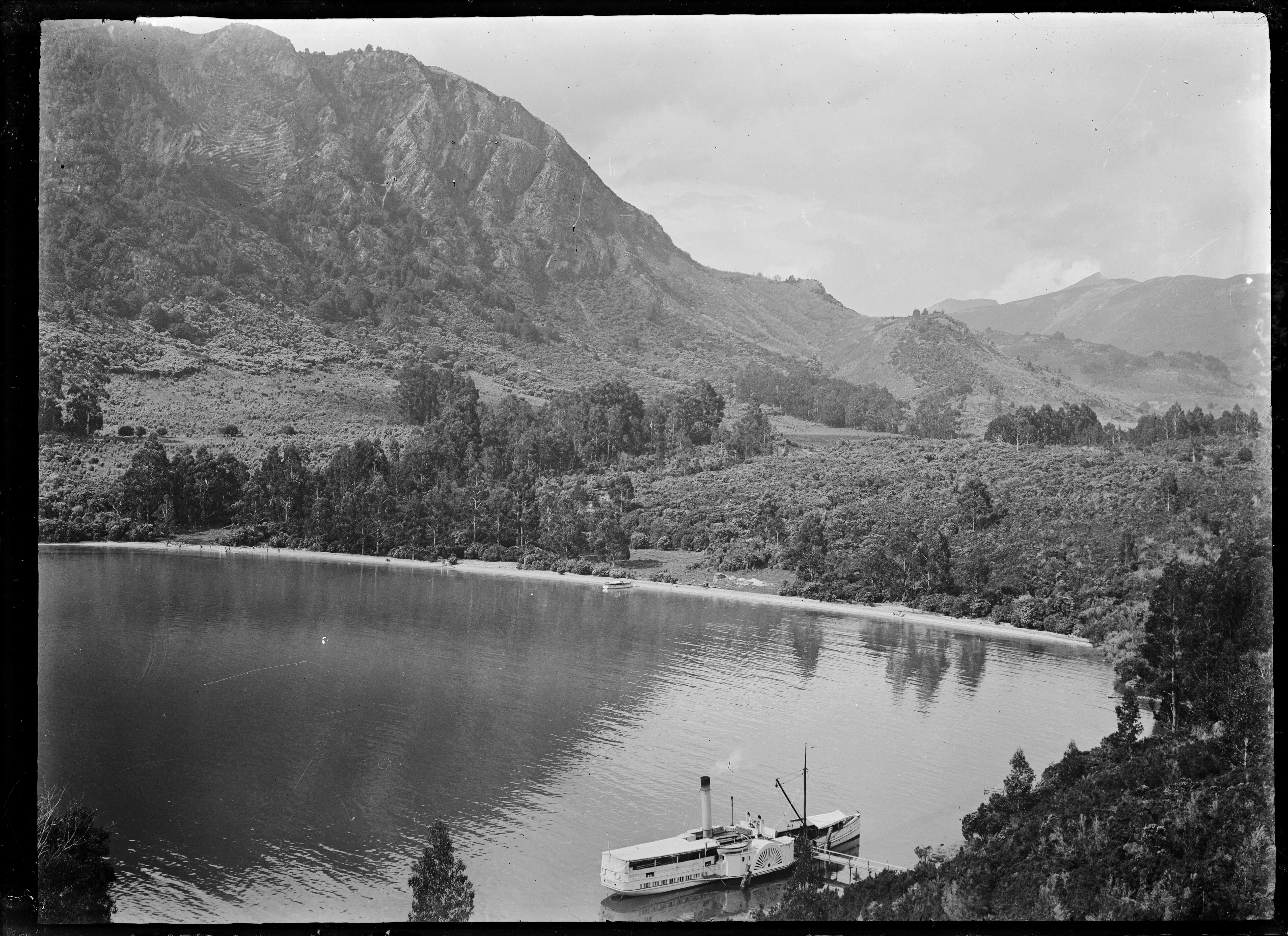 Looking down on the paddle steamer "Mountaineer" at the Elfin Bay jetty on Lake Wakatipu. Photographed by Albert Percy Godber.